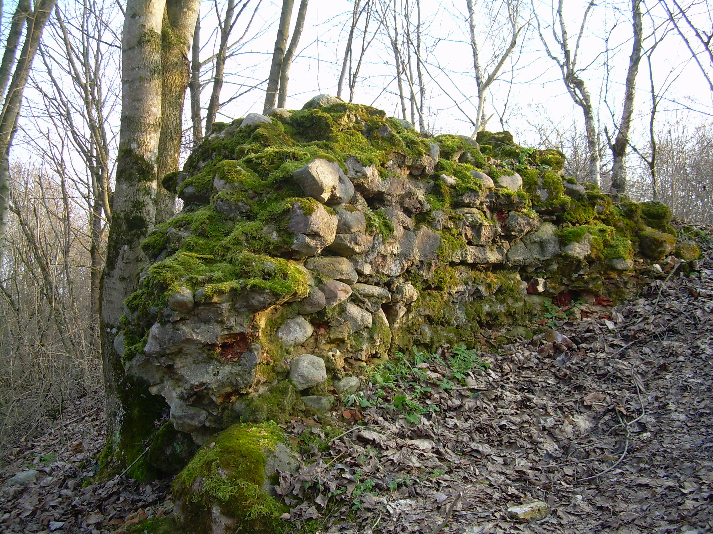 Беларуская (тарашкевіца): Рэшткі замка. в. Геранёны This is a photo of Belarusian heritage monument. Reference number: 412Г000292 ( WLM)